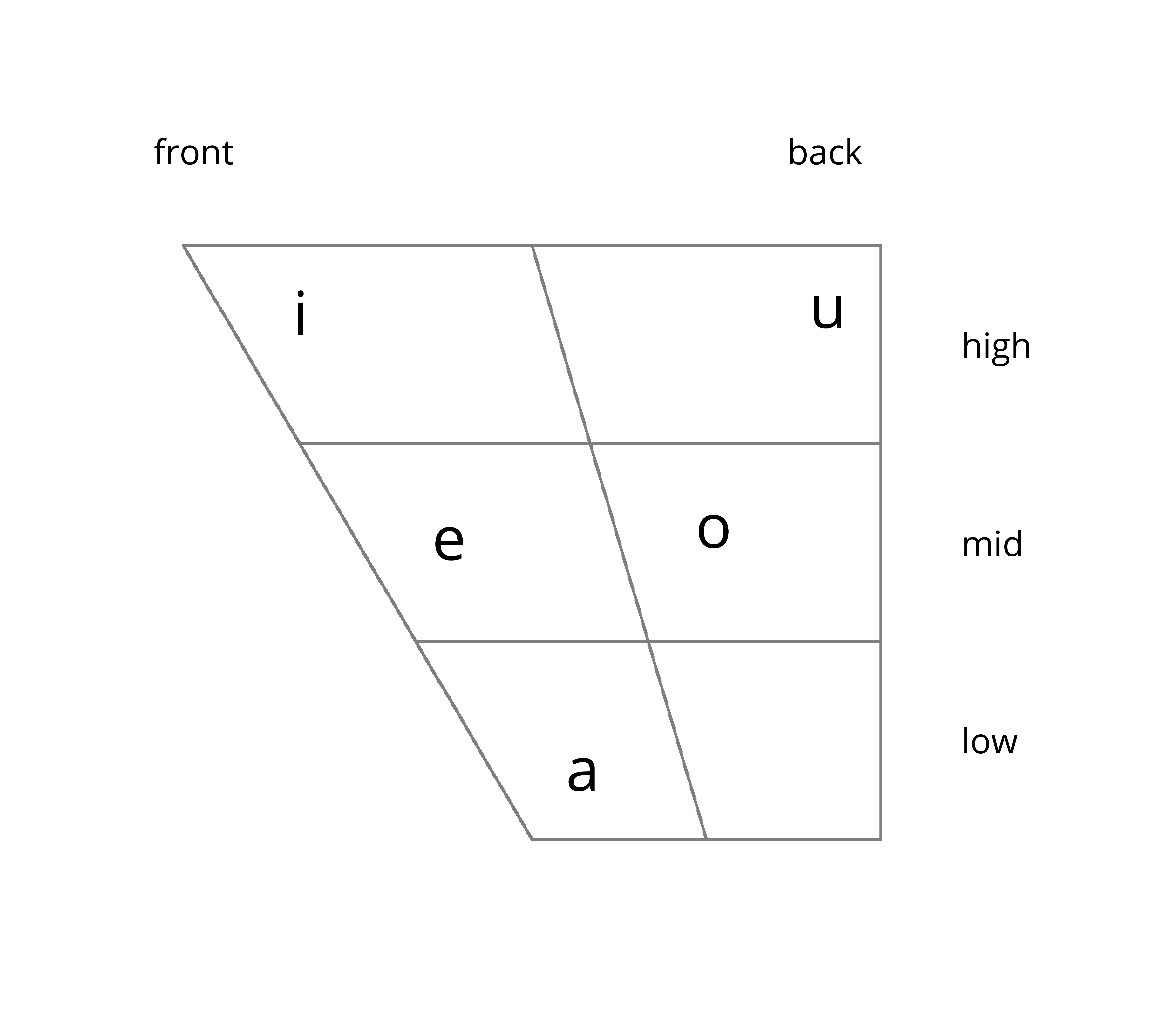 Adapted from